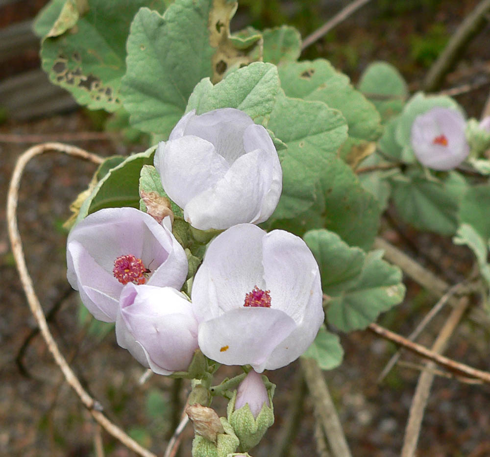 Photo of Malacothamnus fasciculatus var. nuttallii at the Regional Parks Botanic Garden